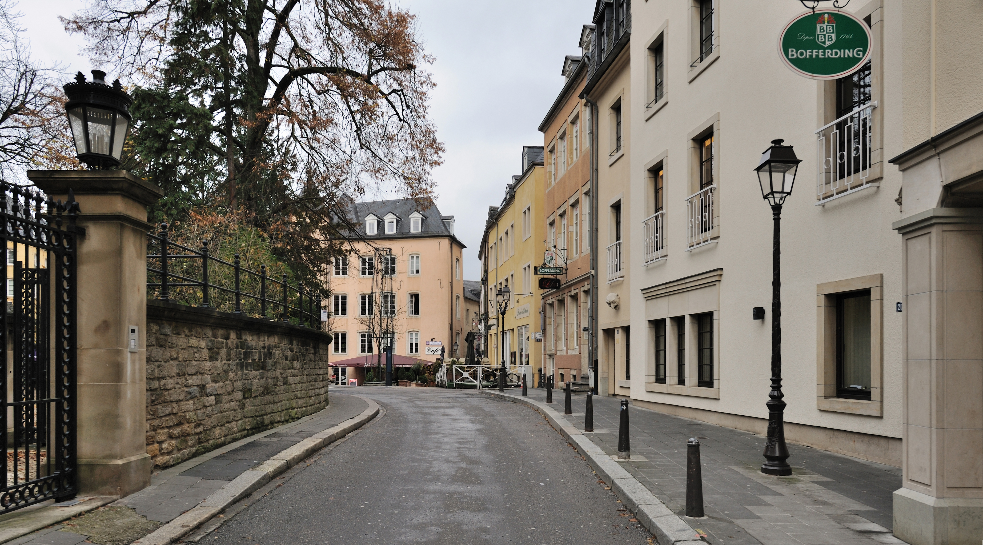 Luxembourg City: rue de l'Eau, towards îlot du Rost.